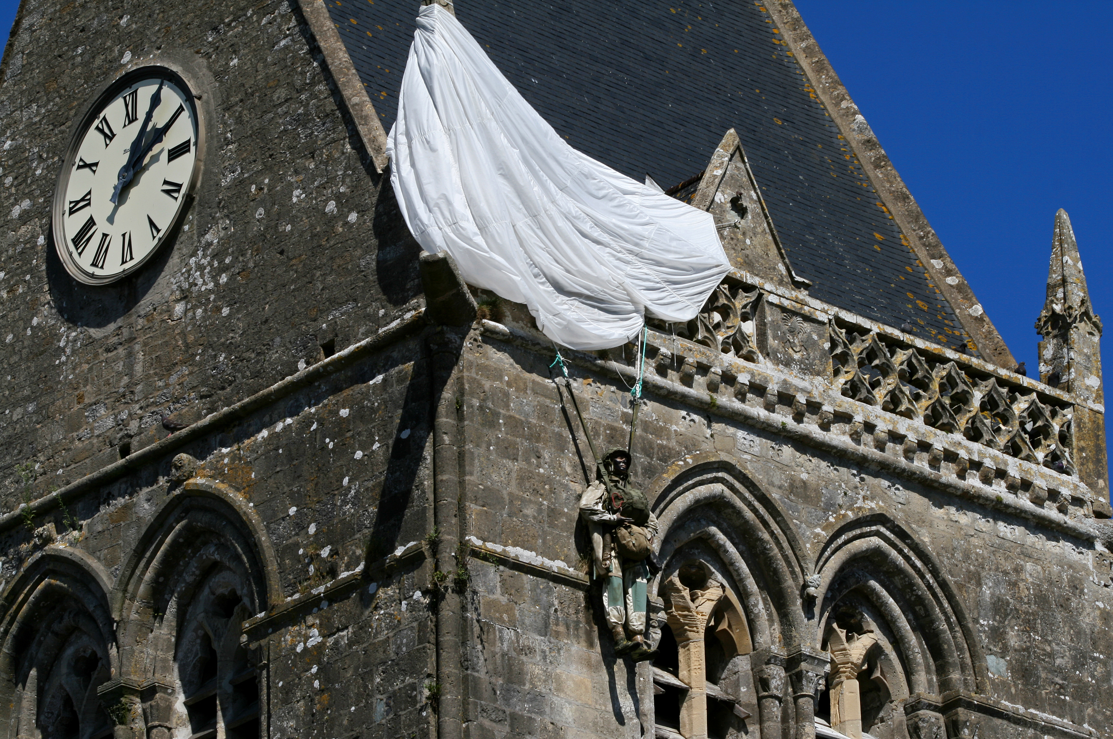 St. Mère Église, Normandy, John Steele